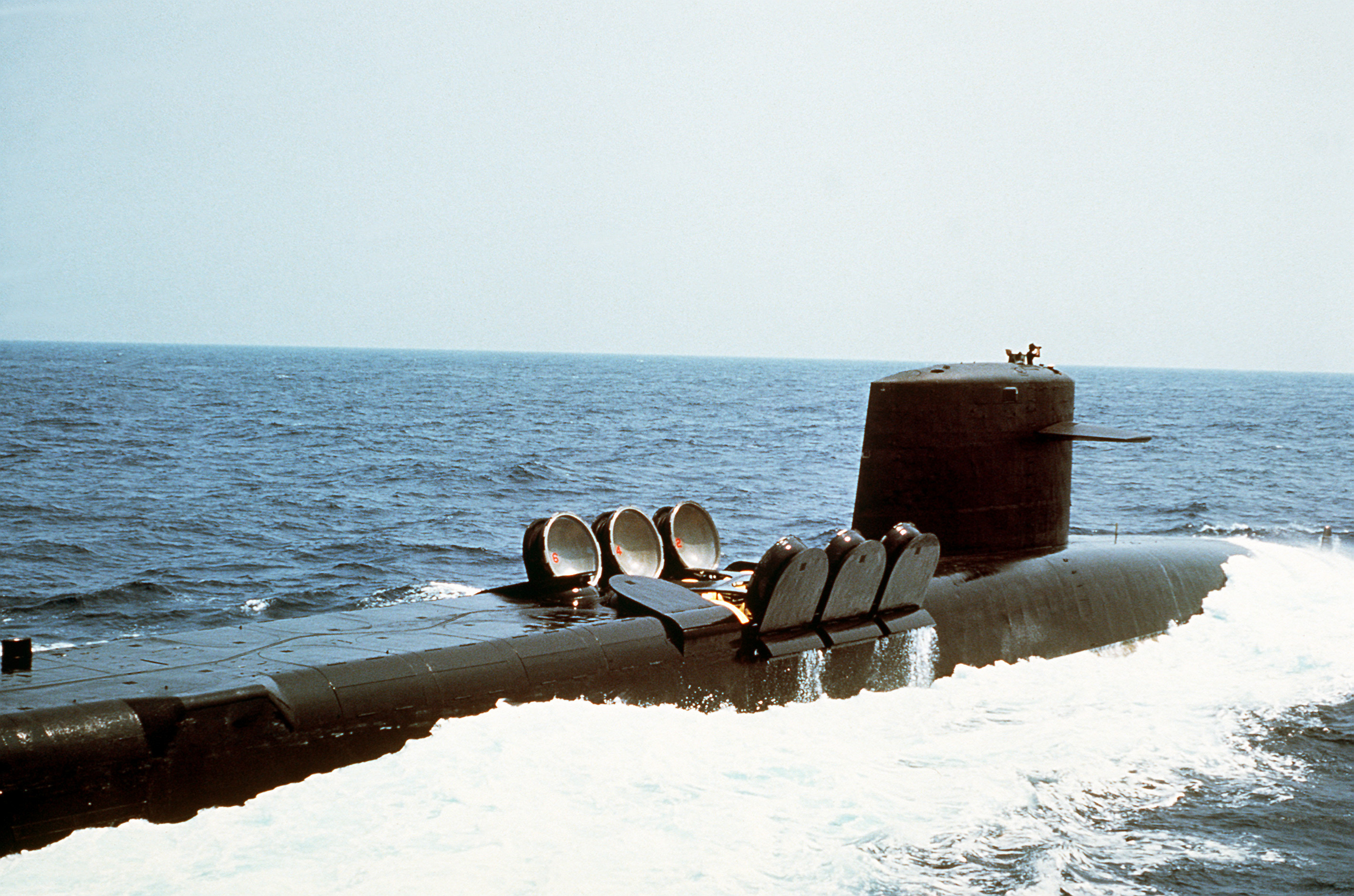 A starboard view of the nuclear-powered submarine Woodrow Wilson (SSBN-624) underway with its missile tube doors open.